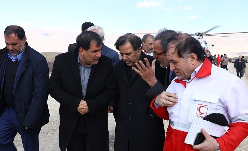 The presence of Abbas Akhundi, Minister of Roads in the area of the accident